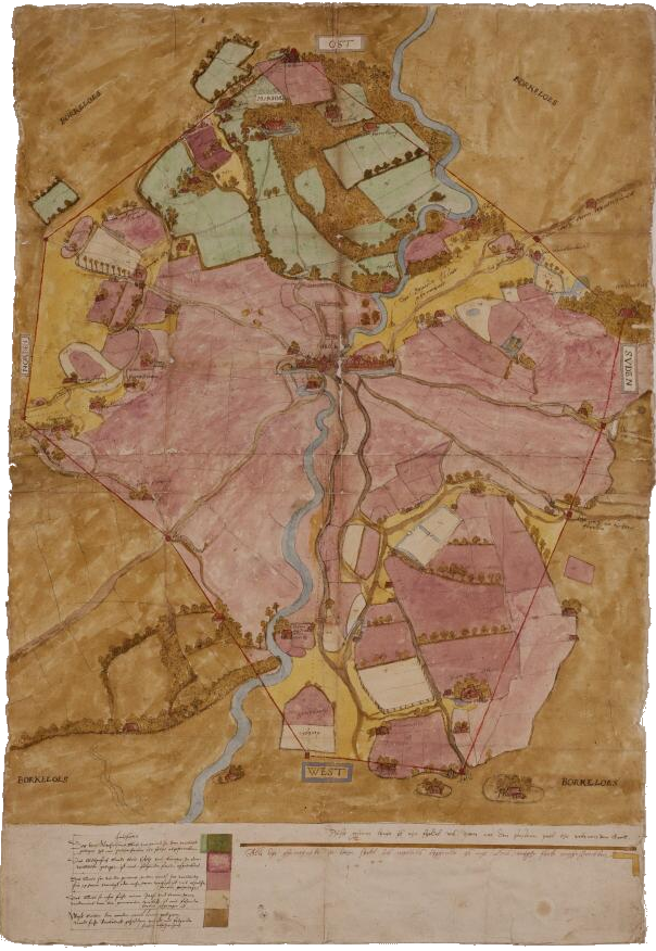 The city and Schepen Groenlo and her borders with Fief Borculo, ca 1550